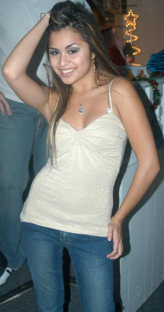 Michelle Maylene at LA Direct Model's Party, Dec 19, 2005